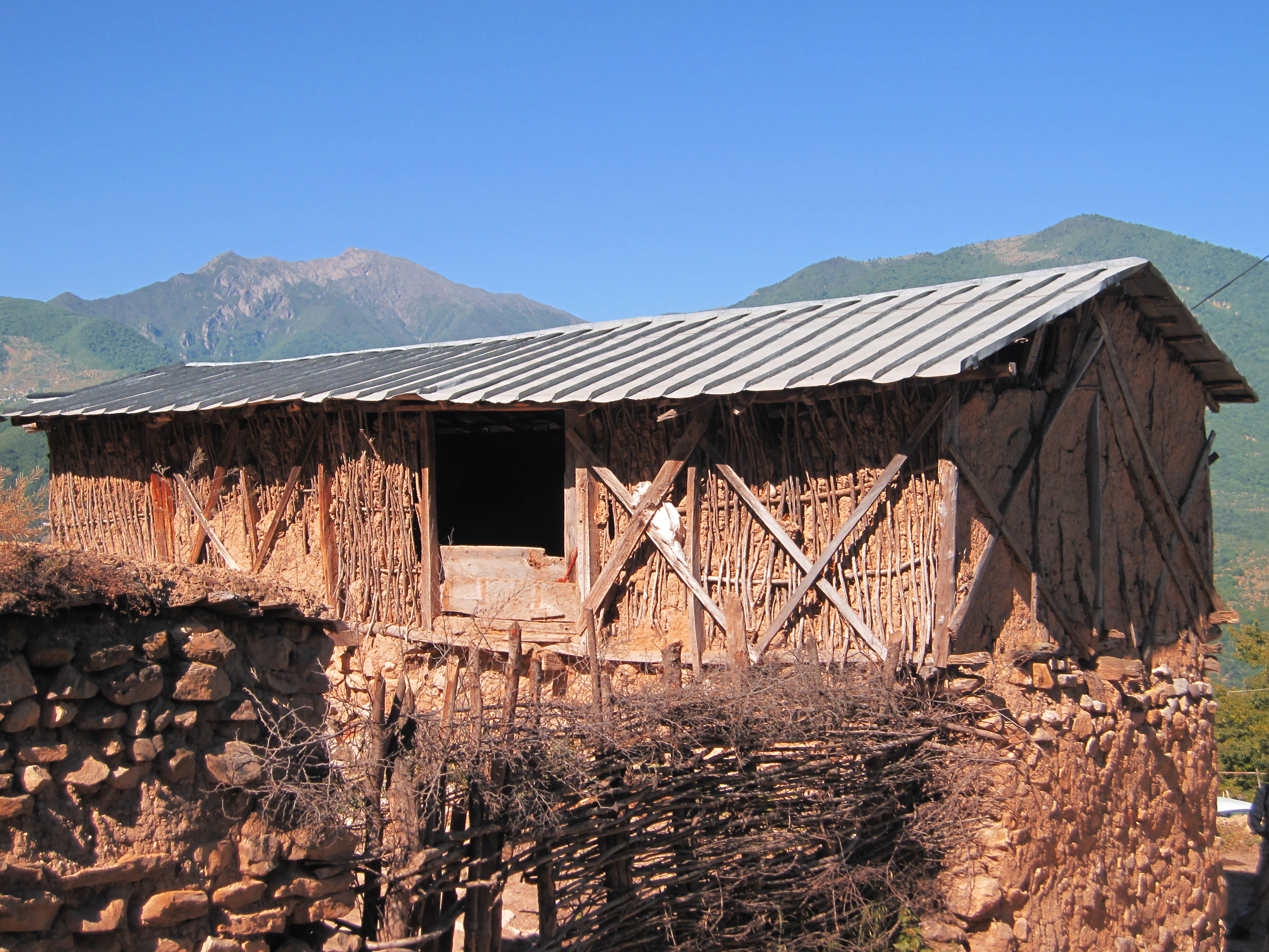 Iran - Golestan - Aliabad Katool - An old house in Nersu